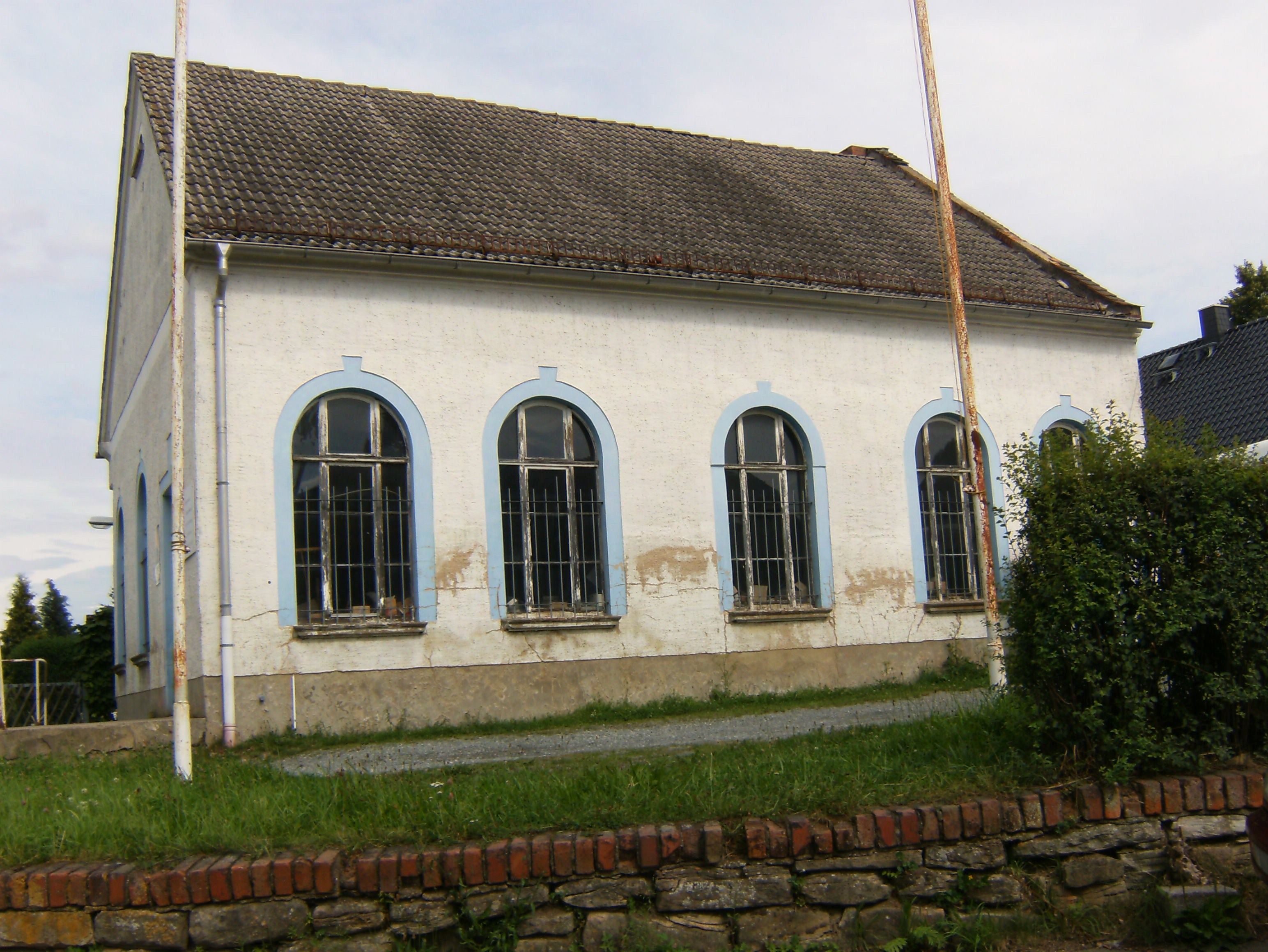 Rubitz, suburb of gera (Thuringia),former gym.